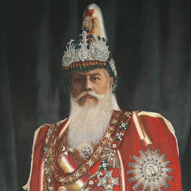 Bhim Shamsher Jang Bahadur Rana (1865-1932) as Prime Minister of Nepal (1929-1932)